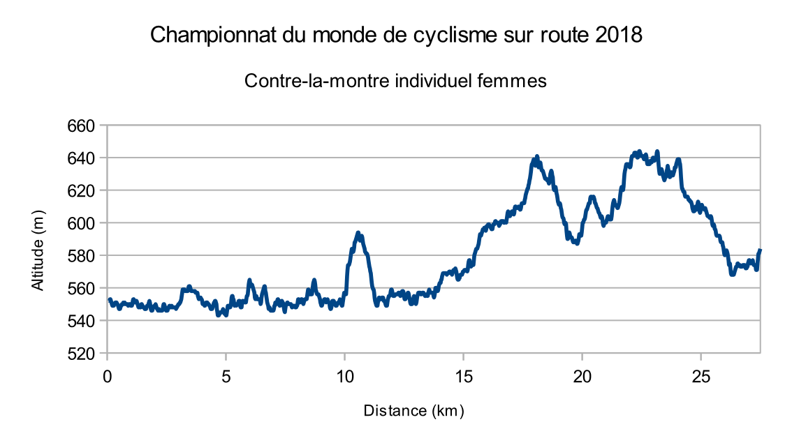 Profil of the women ITT at World Championship 2018 in Innsbrück.